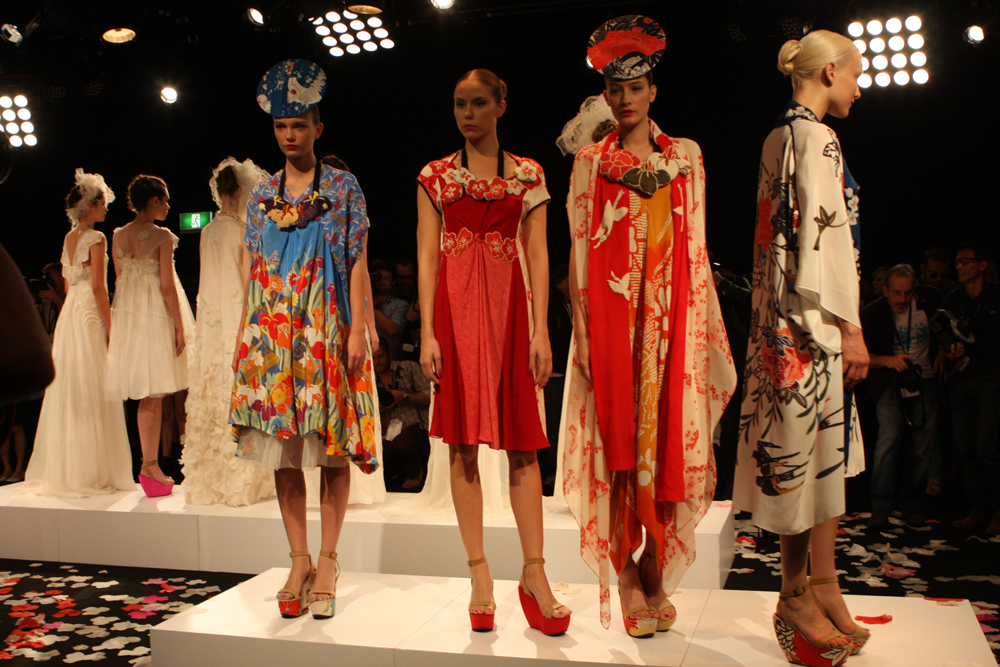 Sydney Australia, A model showcases designs by akira day Five of Mercedes Benz Fashion week Australia, Spring Summer 2012/2013 at the Overseas Passenger Terminal Photo by Eva Rinaldi